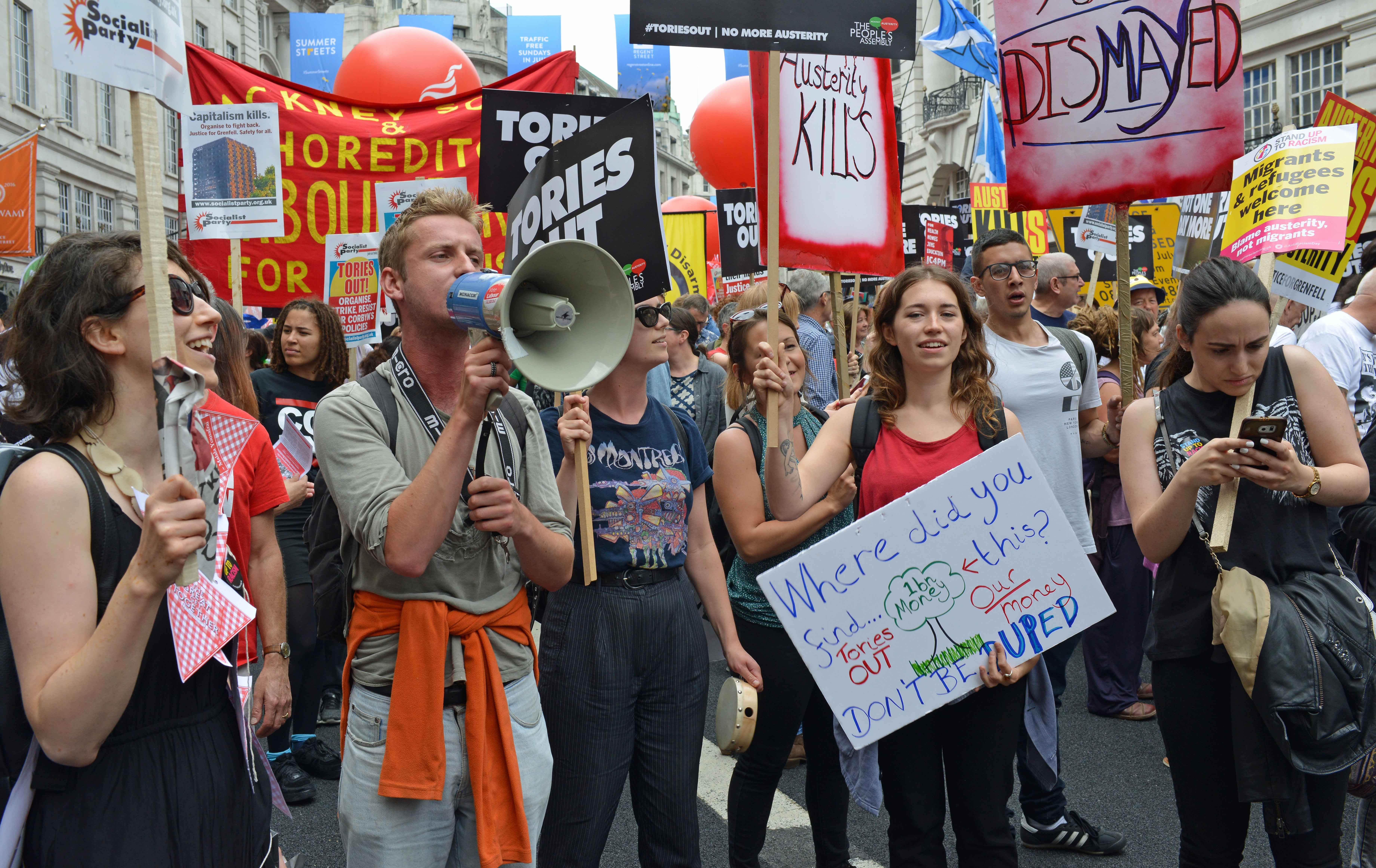 Anti-austerity march, London, 1st July 2017